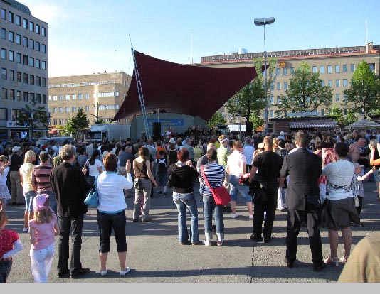 Joensuu market place